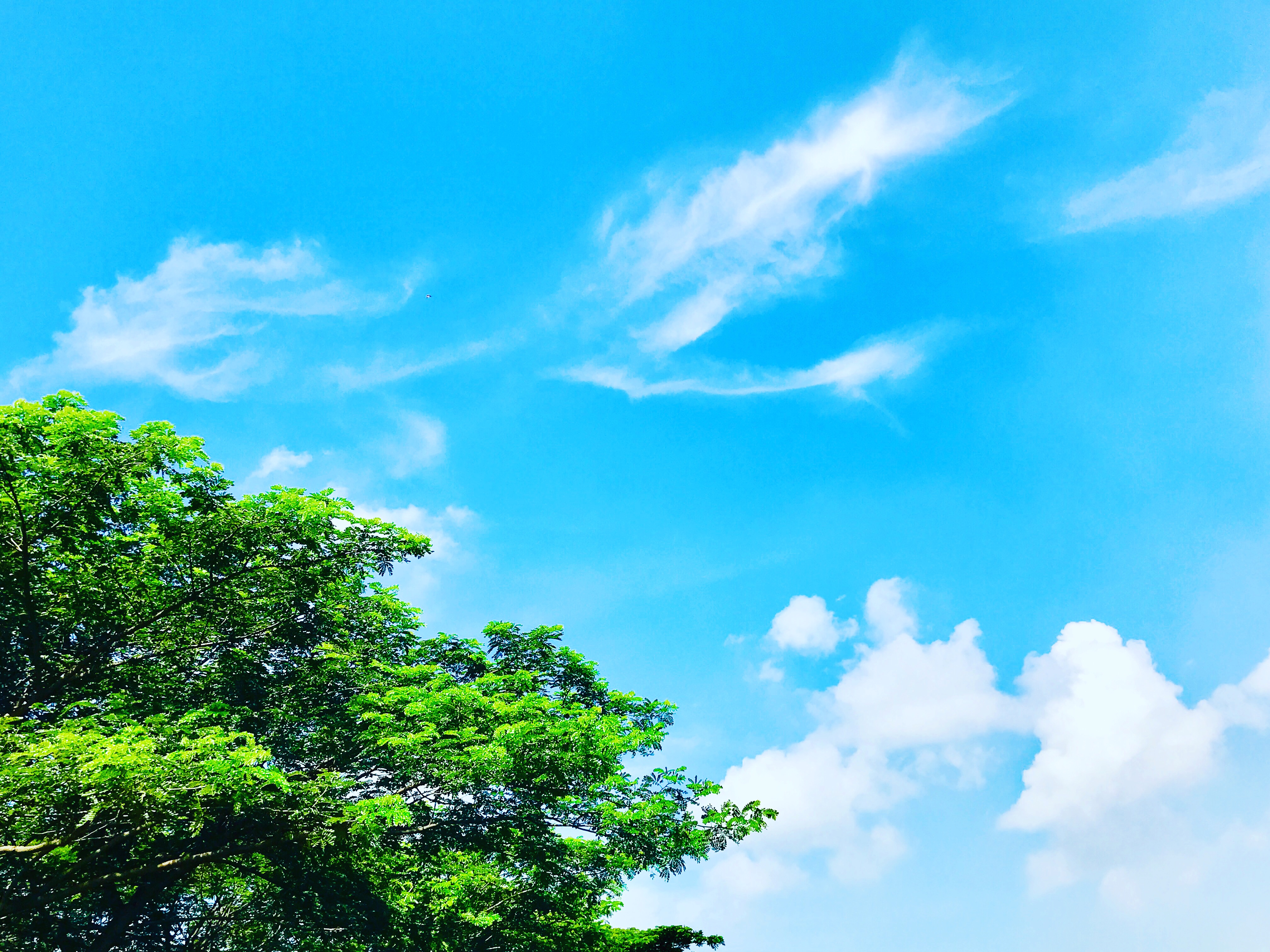 I captured it from Bangladesh Islami University Campus.